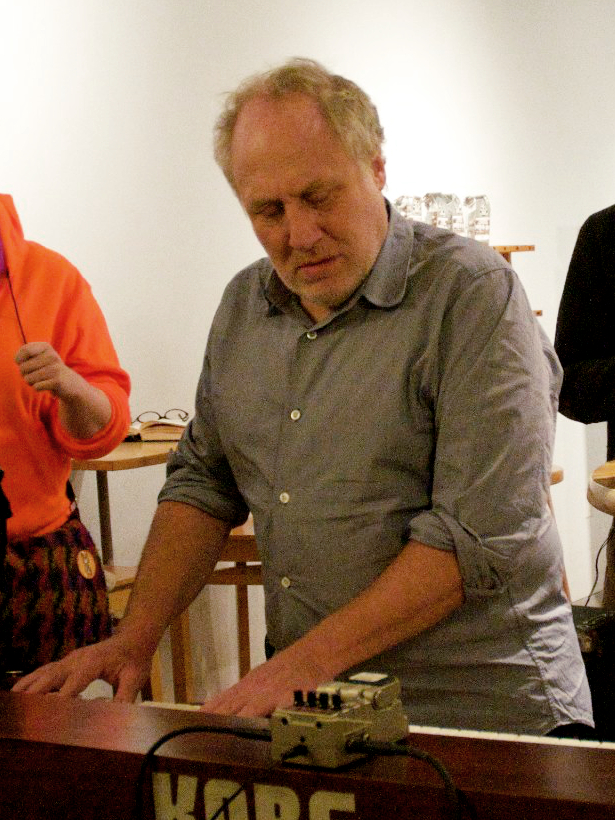 Anthony Coleman soundcheck - Café Fixe, October 9, 2012